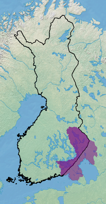 Approximate borders of historical Karelia compared to the borders of modern day Finland.